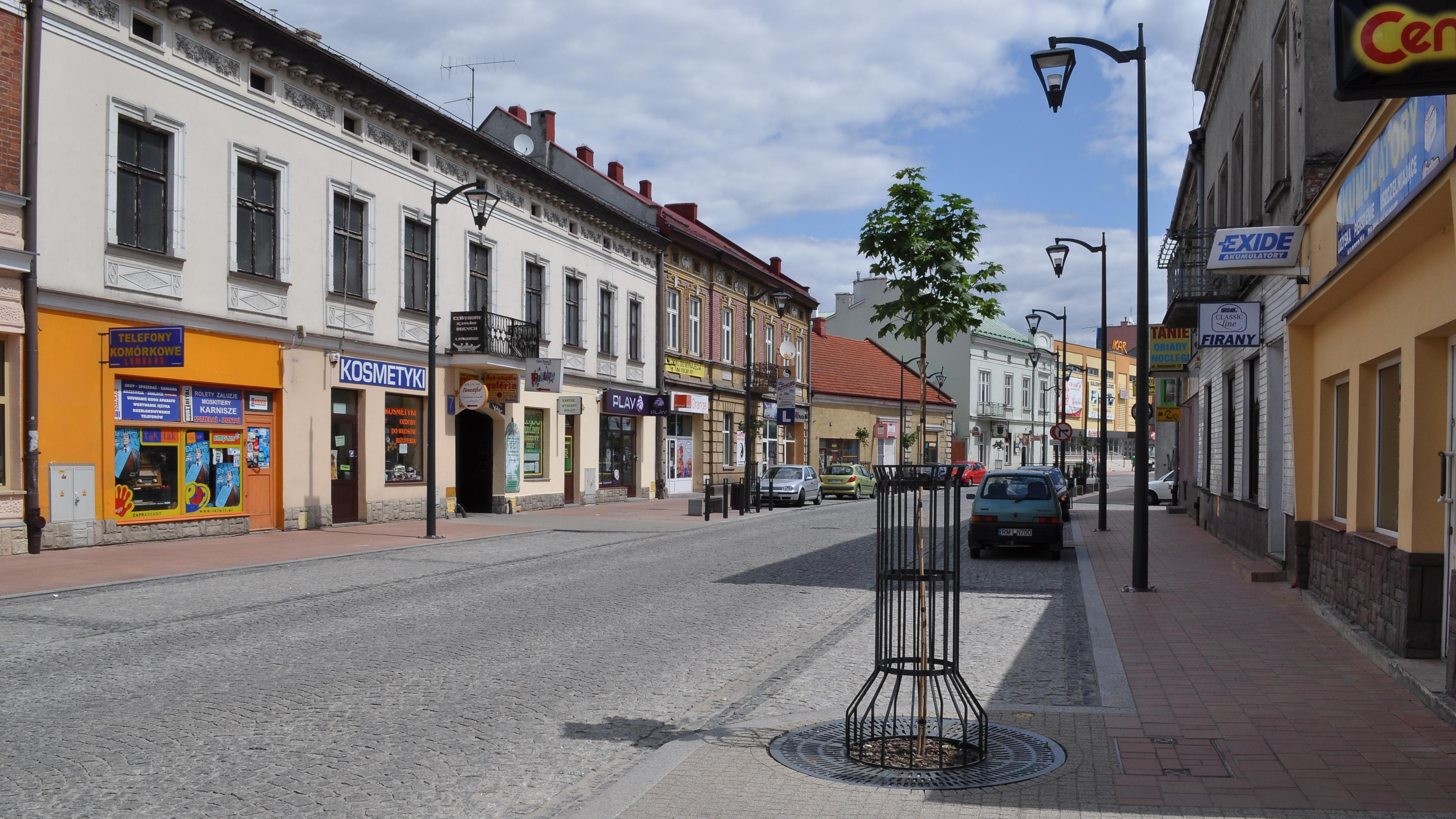 Mickiewicza street in Mielec.